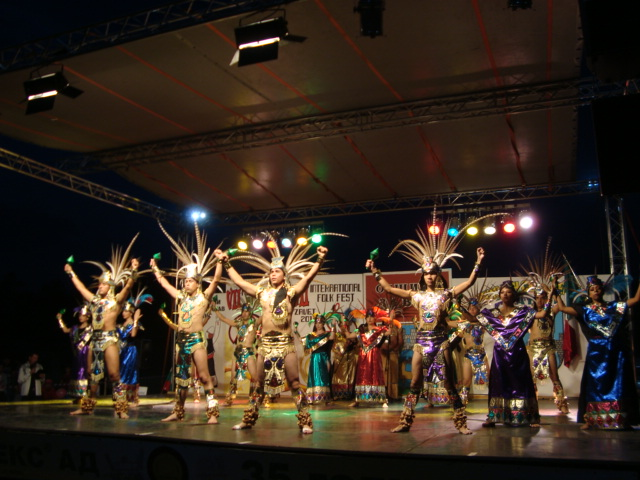 International Folk Fest "Zavet 2011"